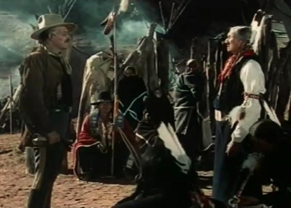 John Wayne & Chief John Big Tree in She Wore a Yellow Ribbon - trailer (cropped screenshot)